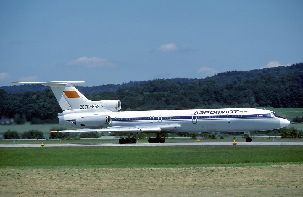 An Aeroflot Tupolev Tu-154B-1 at Zürich Airport (ZRH / LSZH)